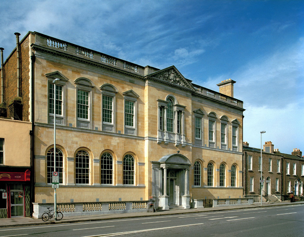 Dublin City Public Libraries and Archive